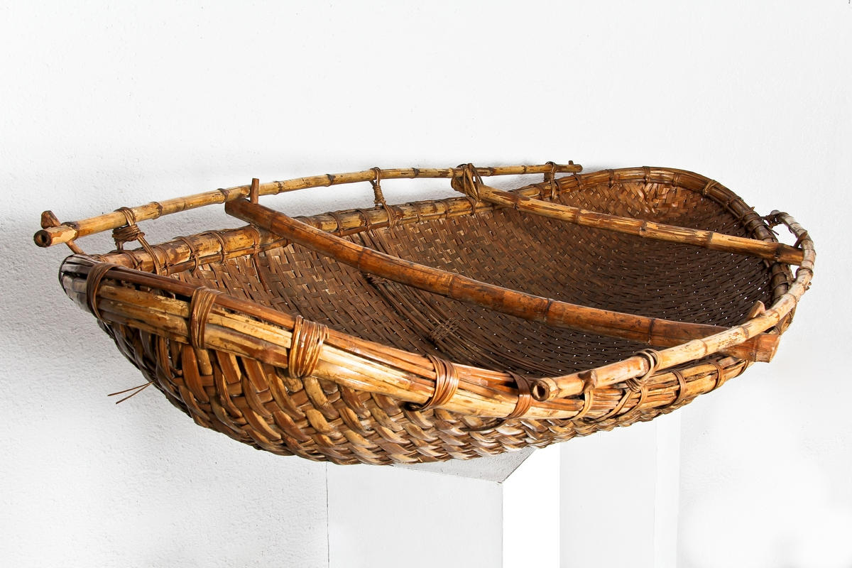 Vietnamese boat, made of bamboo. Not covered with waterproofing mixture. Exhibit in National Maritime Museum in Gdańsk, Poland.